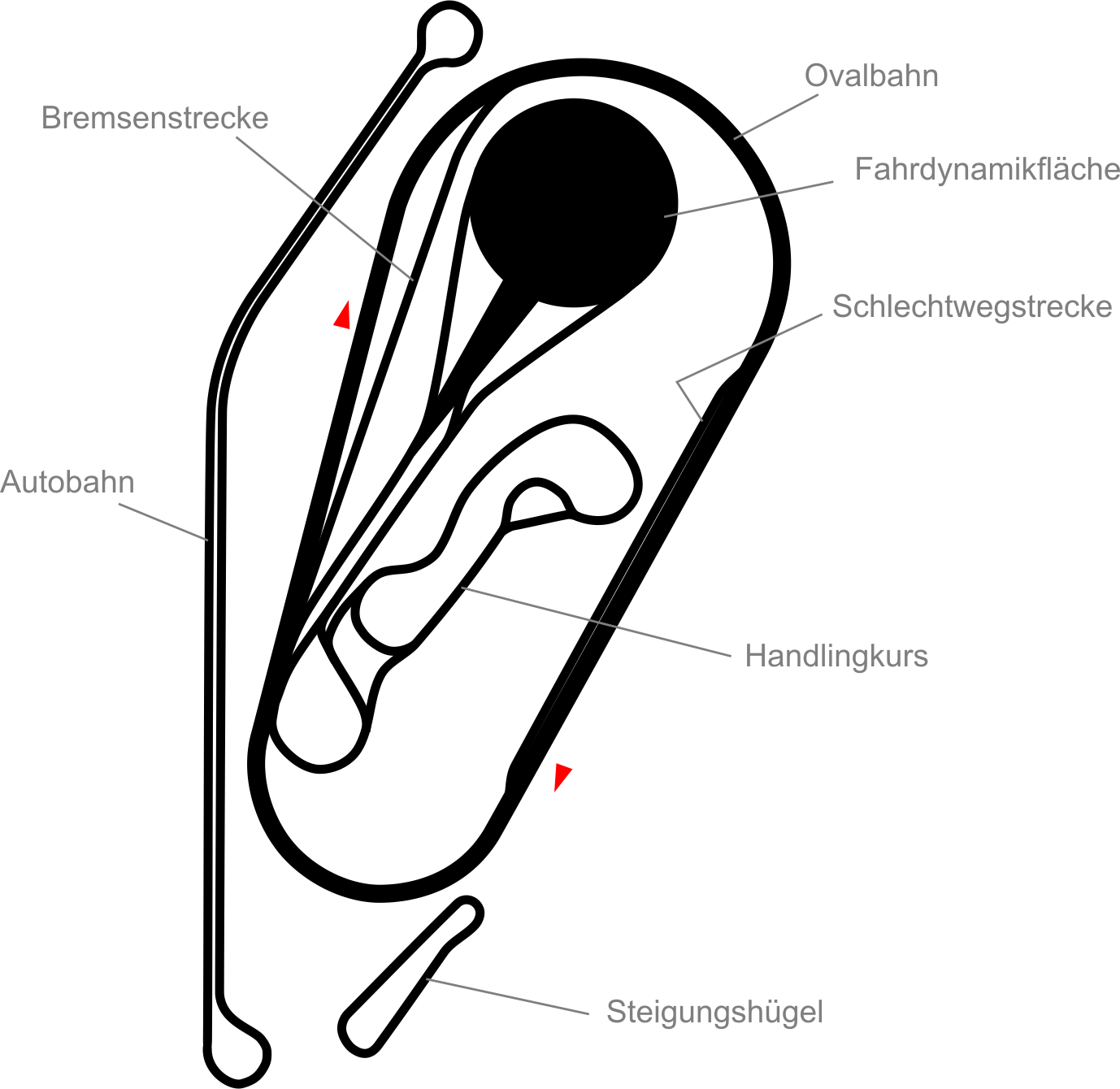 Aldenhoven Testing Center